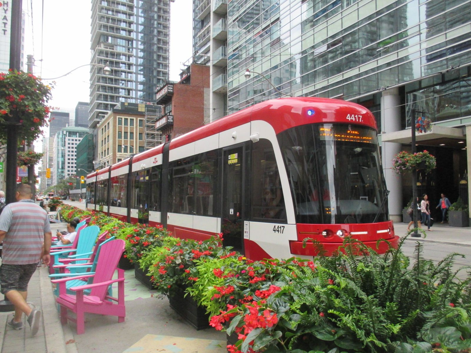 The King Street Pilot Project converted sections of the curb lane into patios with furniture and planters.